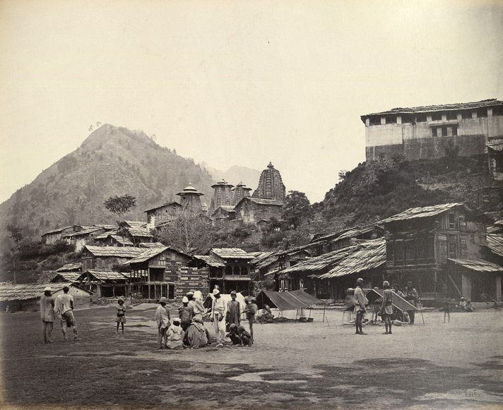 Chumba. Bazar & Temples